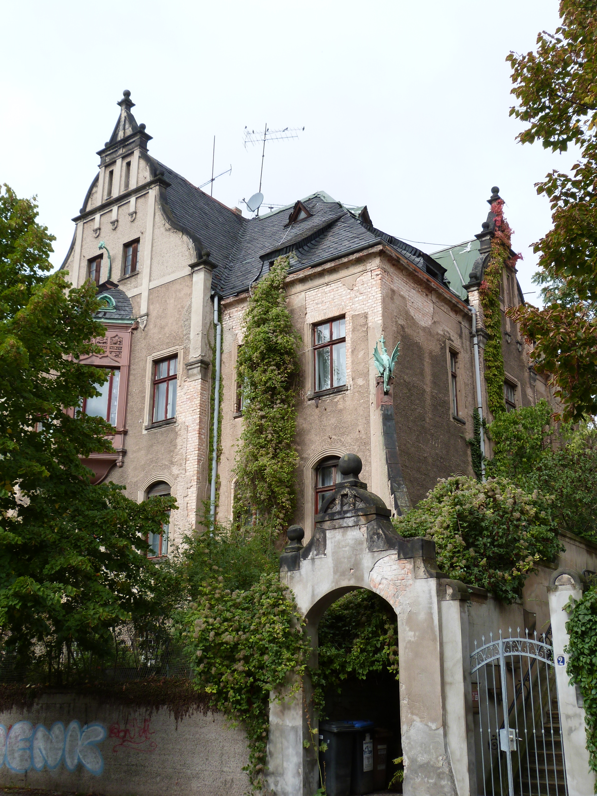 House No. 4 Ernestusstrasse, Halle (Saale)